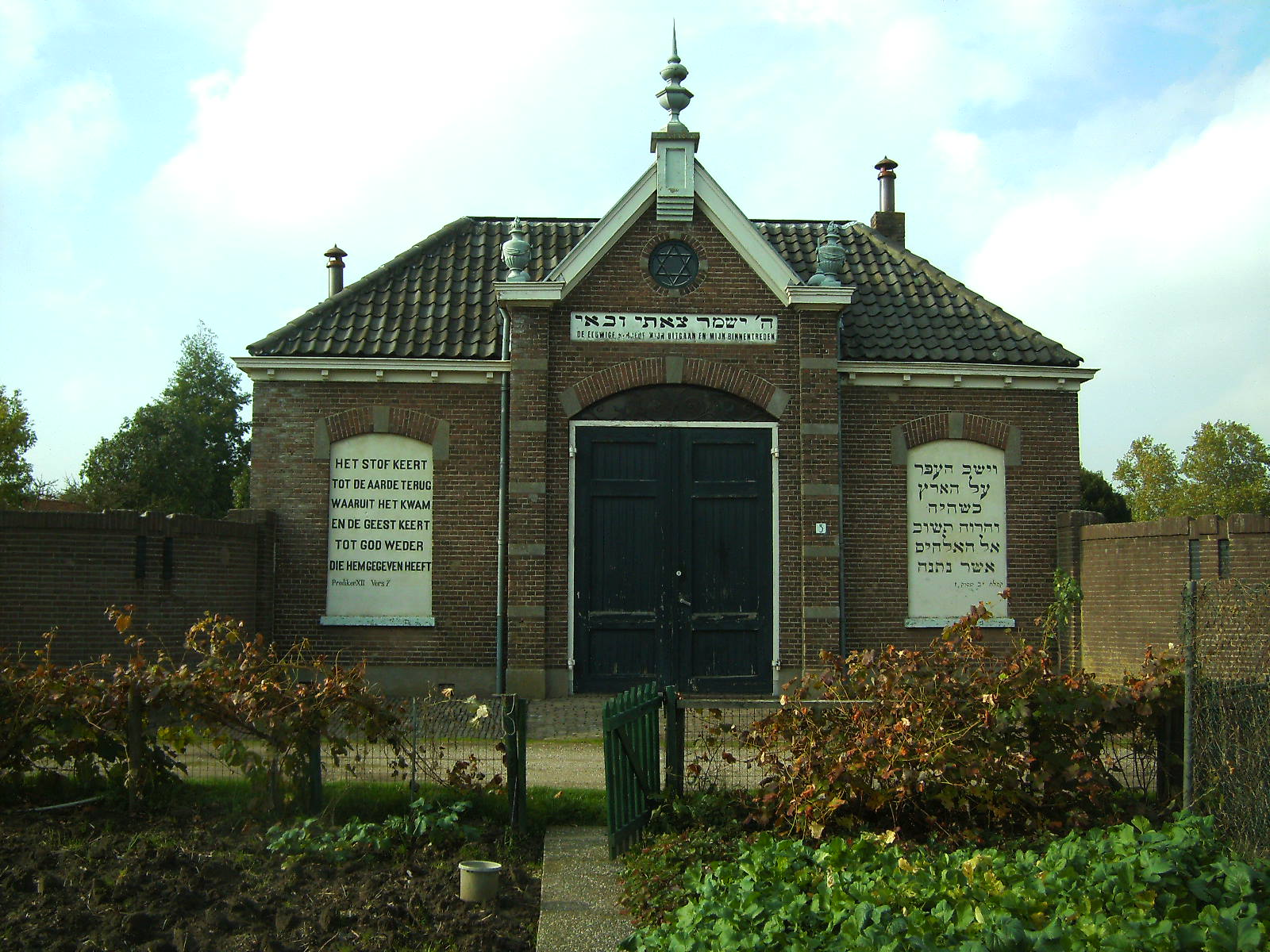 Book of Ecclesiastes 12:7 : "and the dust returns to the ground it came from, and the spirit returns to God who gave"